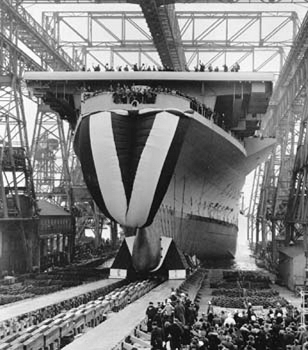 Launch of the U.S. Navy aircraft carrier USS Shangri-La (CV-38) at the Norfolk Naval Shipyard, Virginia (USA), on 24 February 1944.